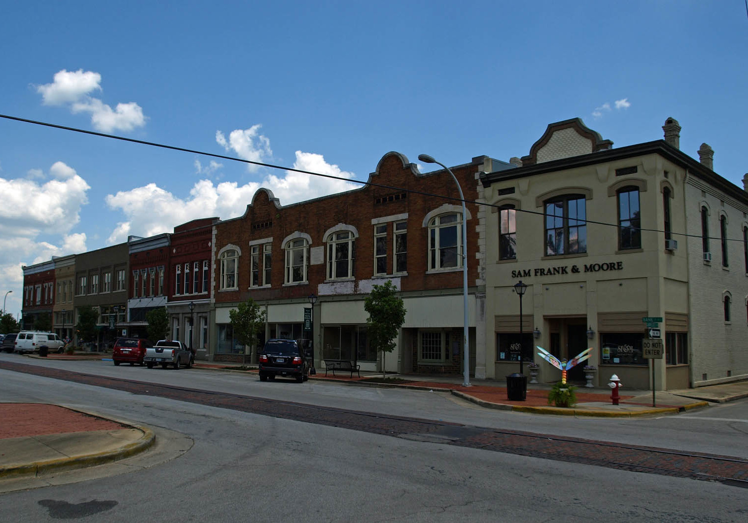 Buildings on Bank Street in Decatur, Alabama, part of the Bank Street Historic District.